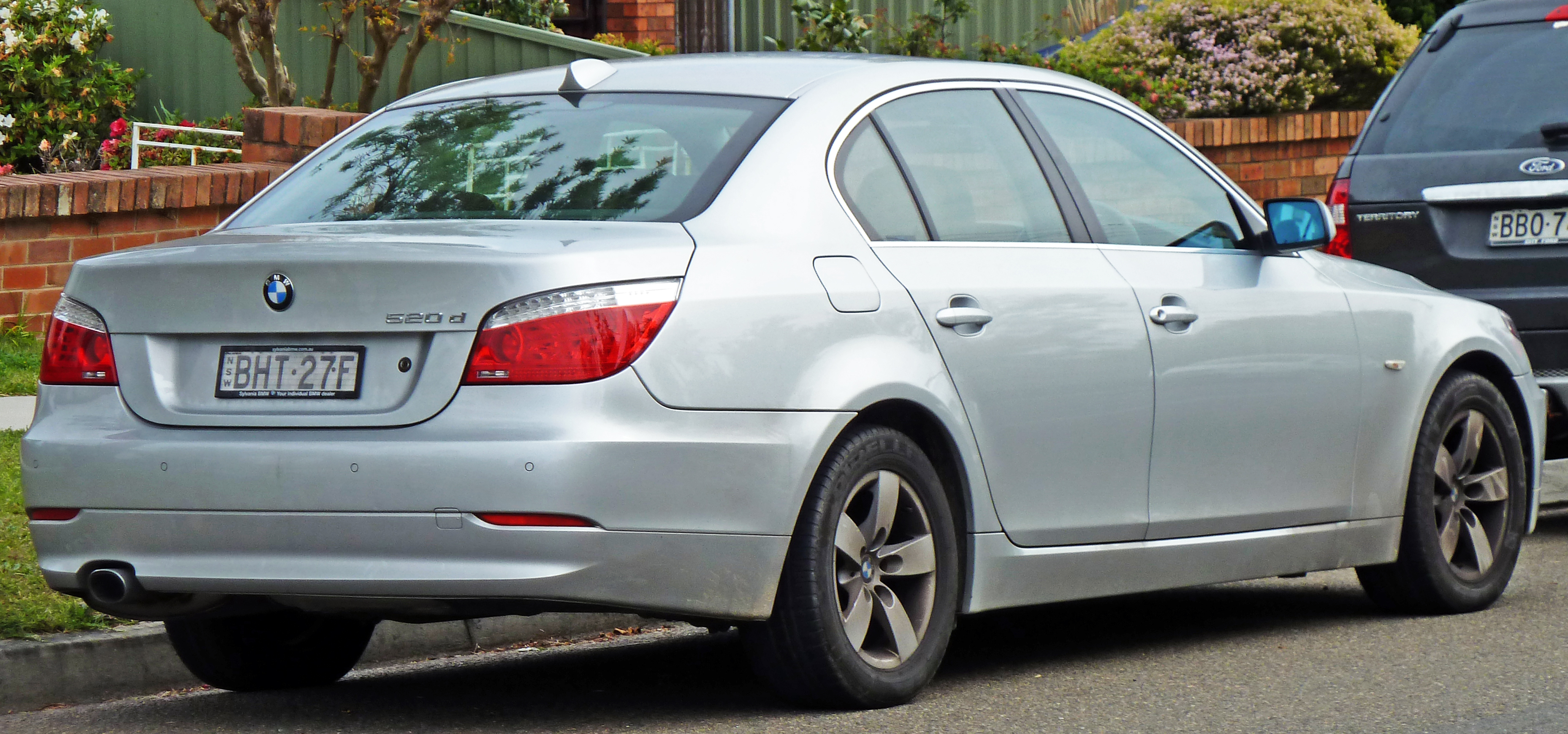 2007–2010 BMW 520d (E60) sedan. Photographed in Taren Point, New South Wales, Australia.